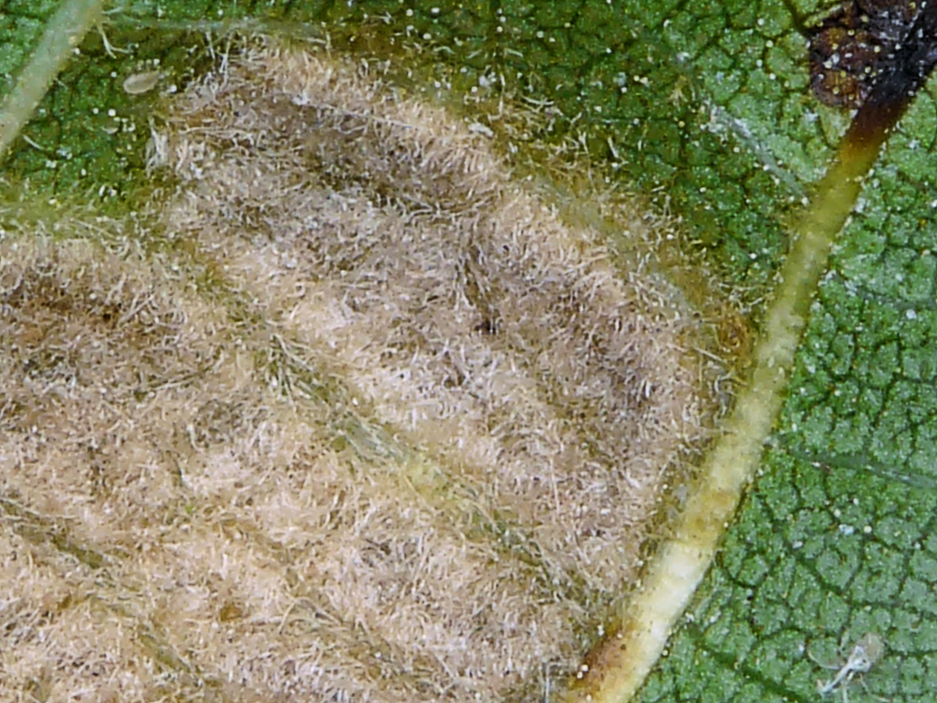 Aceria erinea on Juglans regia, backside leaf. Left uppercorner is to see a mite